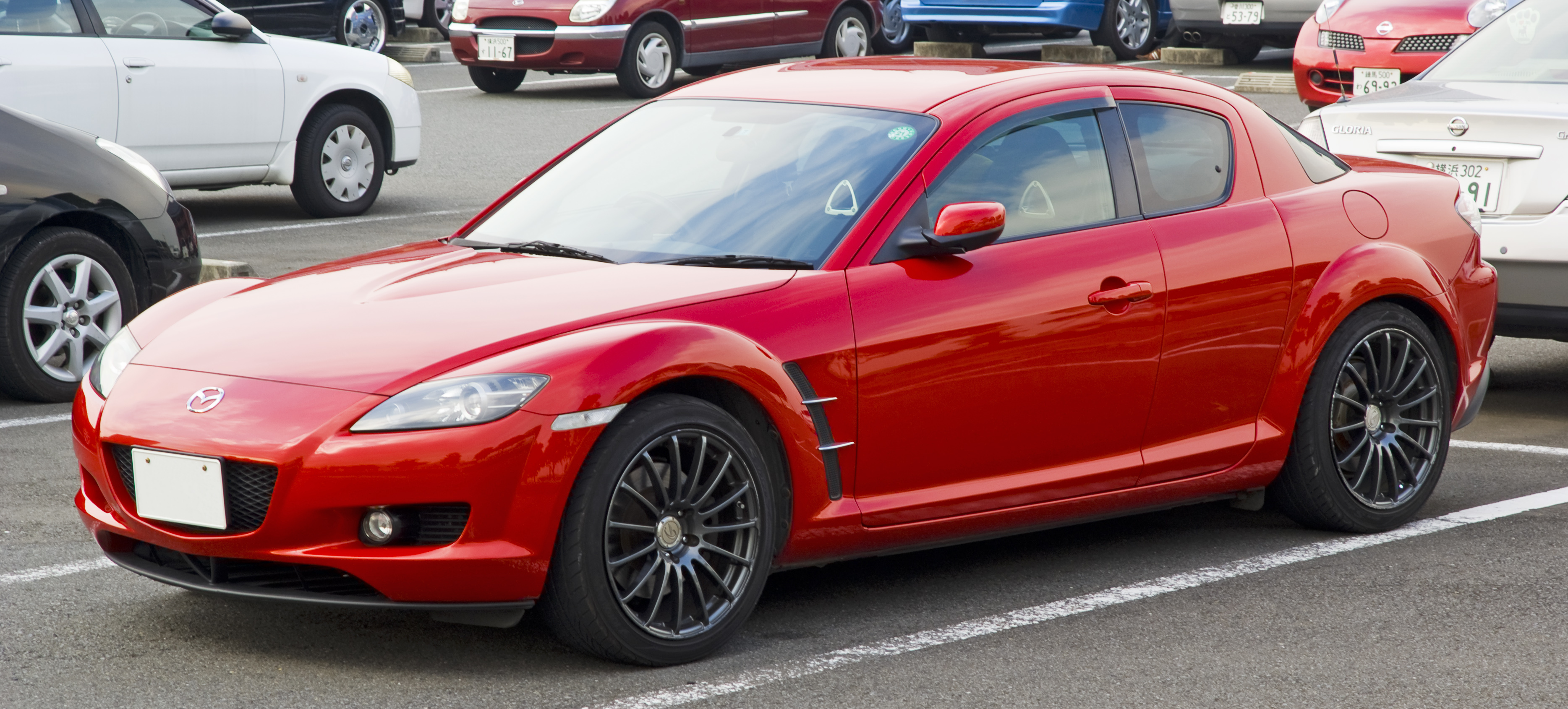 2003-2007 Mazda RX-8 photographed in Yokohama